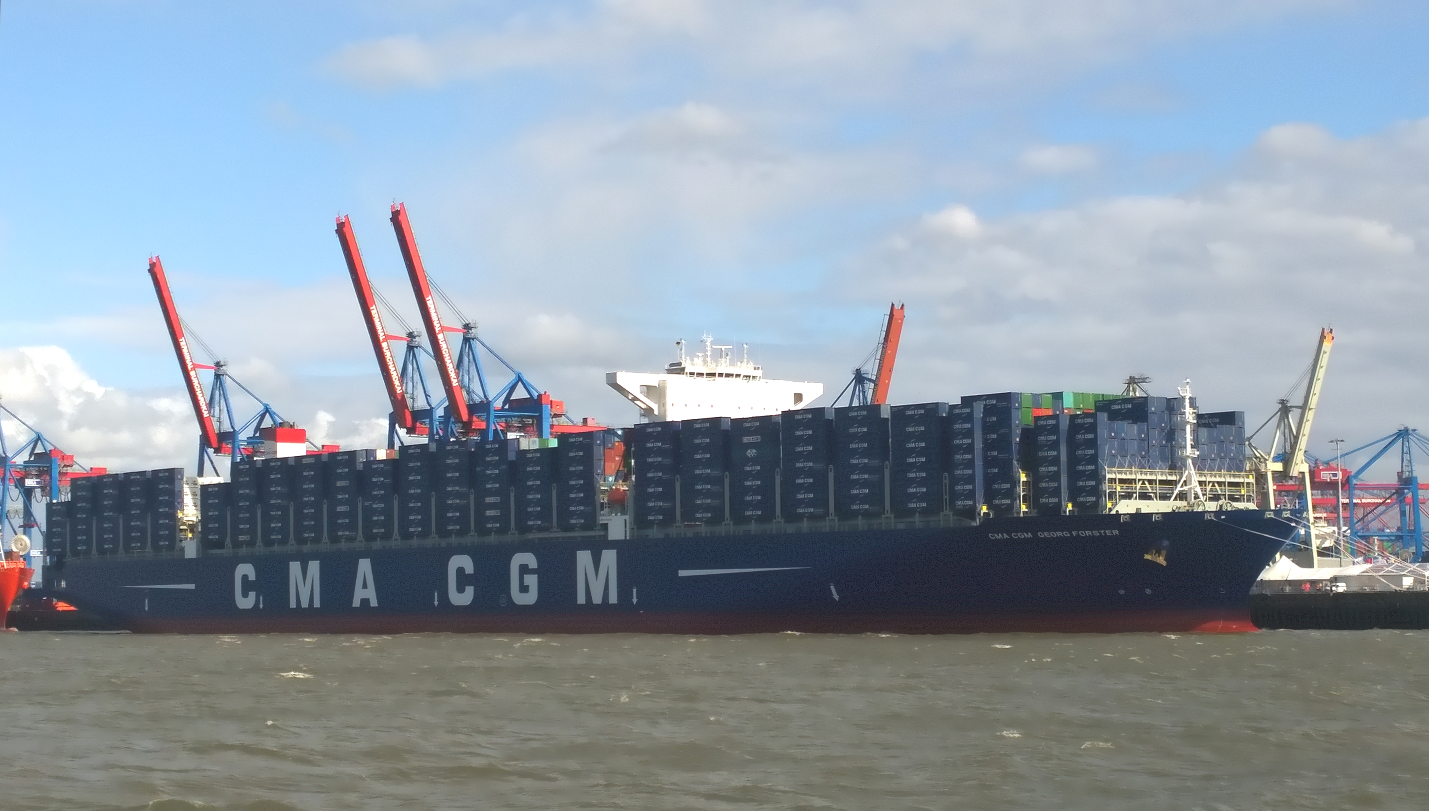 The new containership CMA CGM Georg Forster in Hamburg at the Burchardkai Terminal